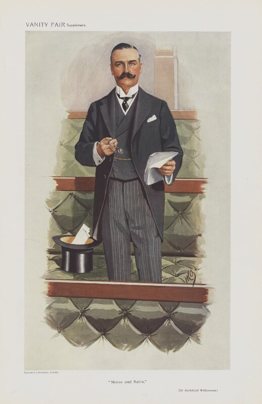 Men of the Day No.1203: Caricature of Sir Archibald Williamson MP. Caption reads: "Moray and Nairn"